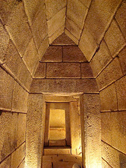 Main entrance to the dromus of Kosmatka Tomb